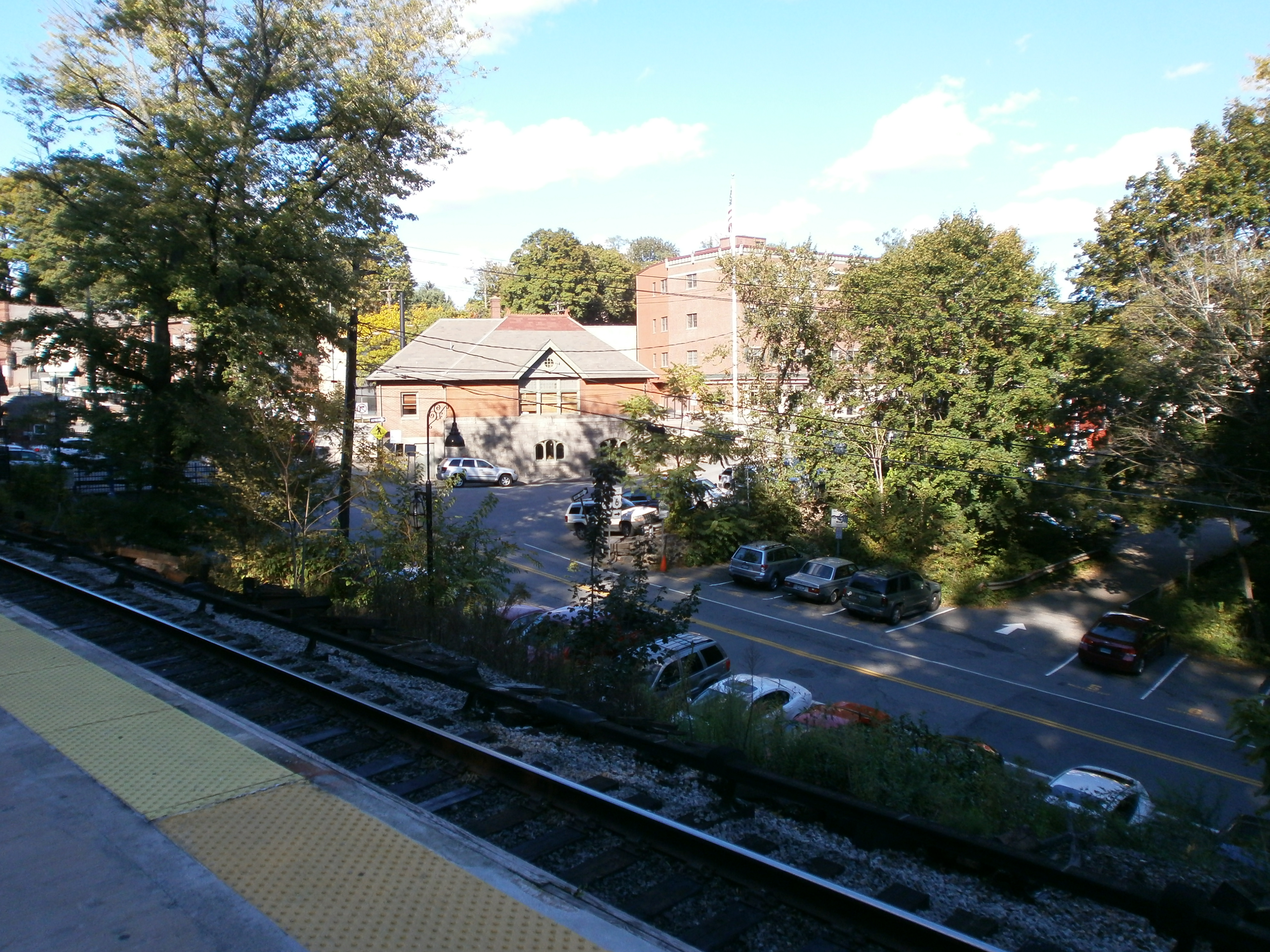 Brewster NY from MetroNorth